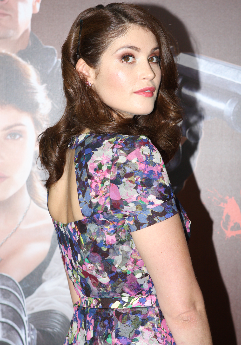 Gemma Arterton at the Hansel and Gretel Witch Hunters Australian Premiere 2013.